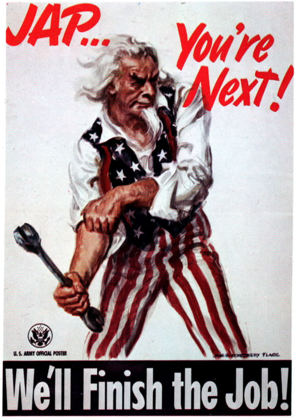 WW2 US Army poster showing Uncle Sam holding spanner. Presumably released between VE day and VJ day.